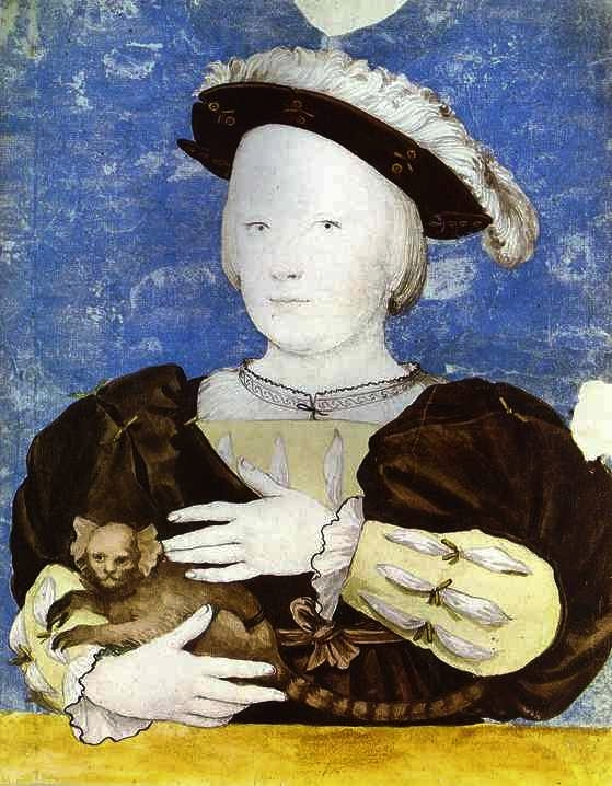 Prince Edward with a monkey, future King Edward VI of England